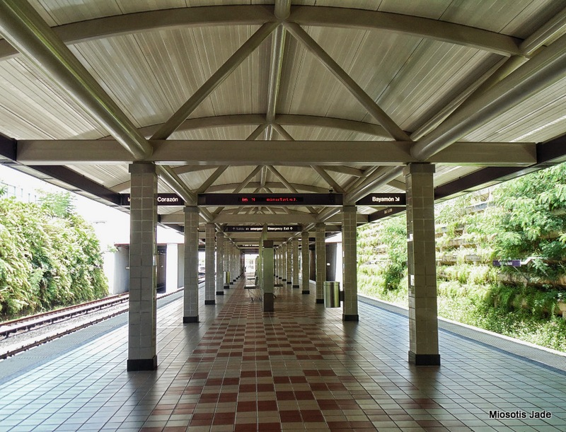 Estacion Martinez Nadal en Guaynabo, perhaps Cut & Uncover